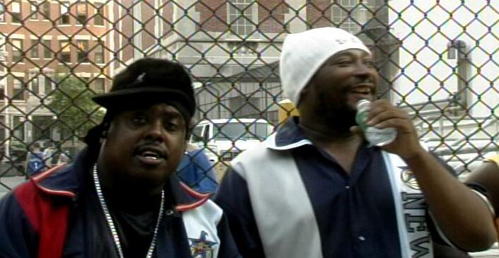 This is Silkski and ODB taking a break at the No Money video shoot in Brooklyn, NY.